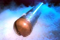 Cryobot für Missionen zum Wostoksee